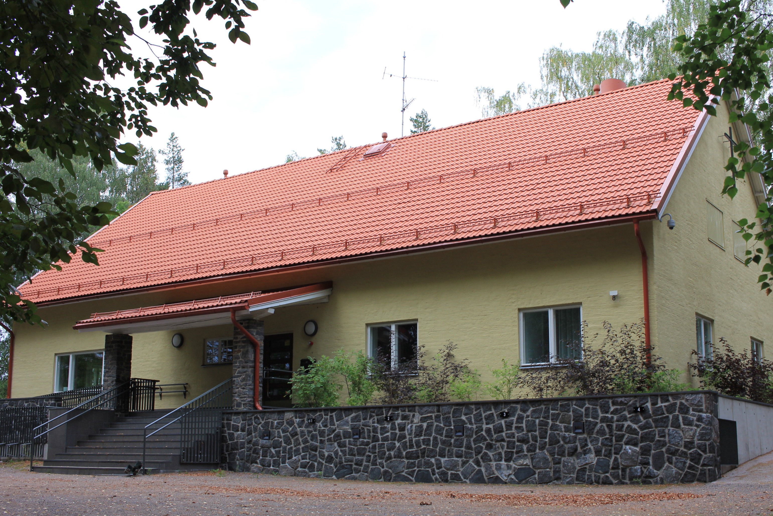 Malminkartano chapel, Helsinki, Finland. – Seen from southwest.